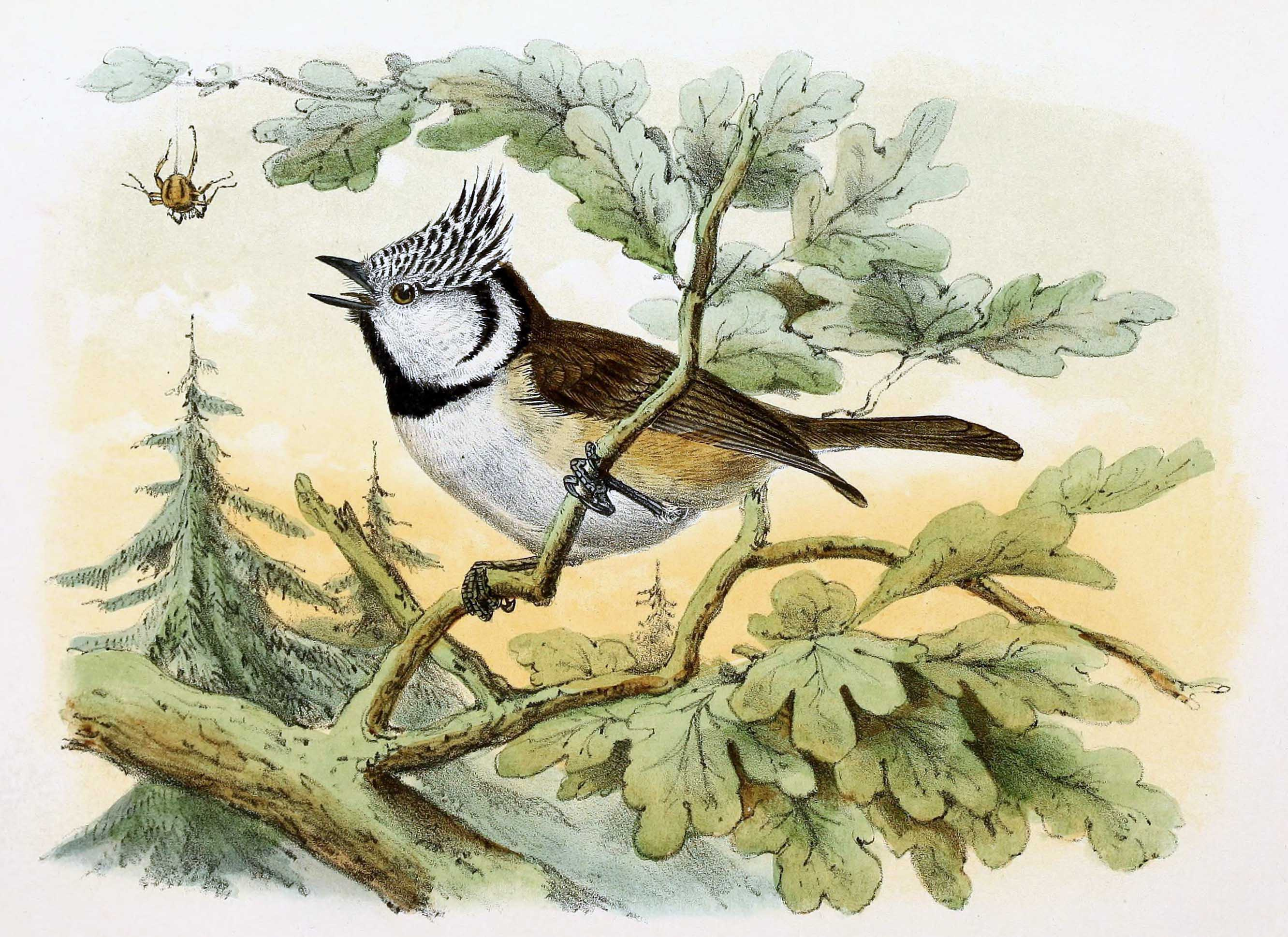 « Parus cristatus » = Lophophanes cristatus (European crested tit)